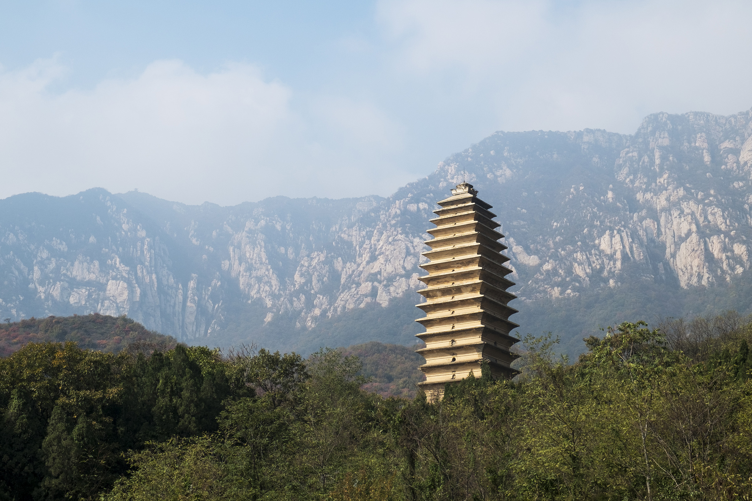 Fawang Temple Pagoda, Dengfeng. Shot in Nov. 2014